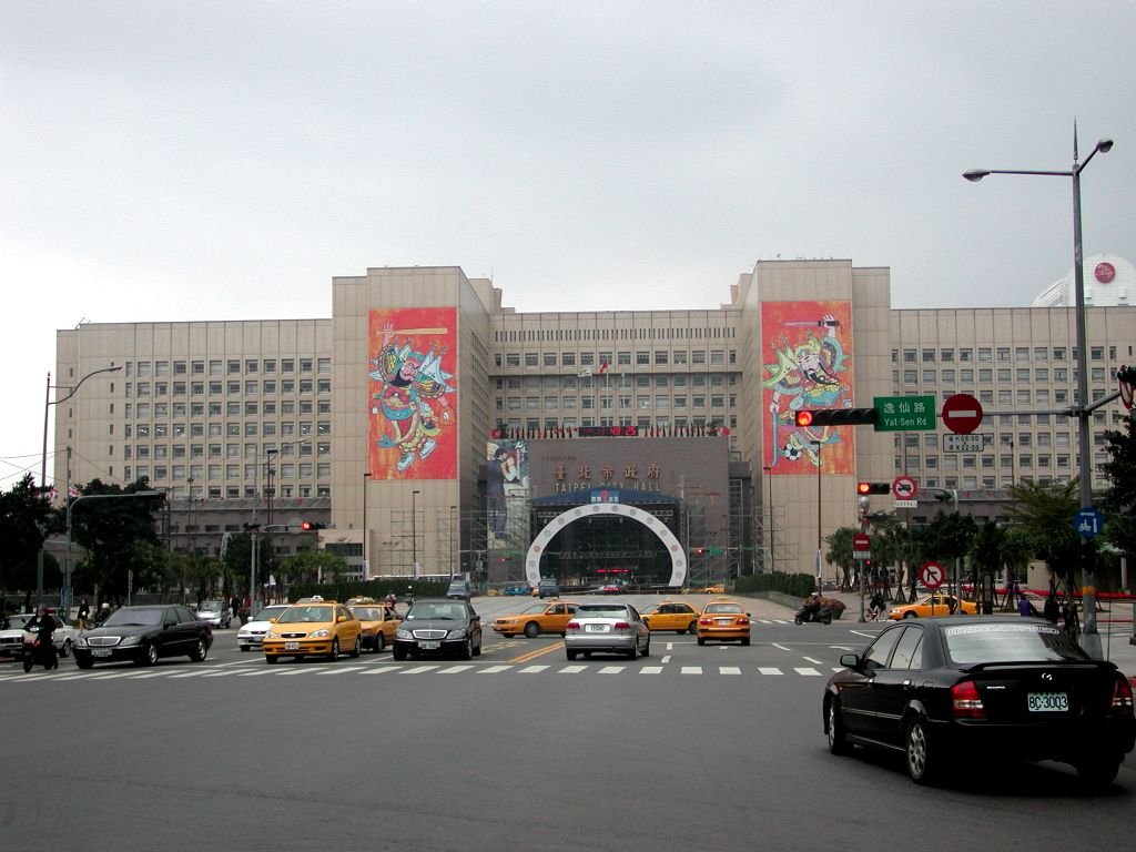 Taipei City Hall front view, taken by Allen Timothy Chang.